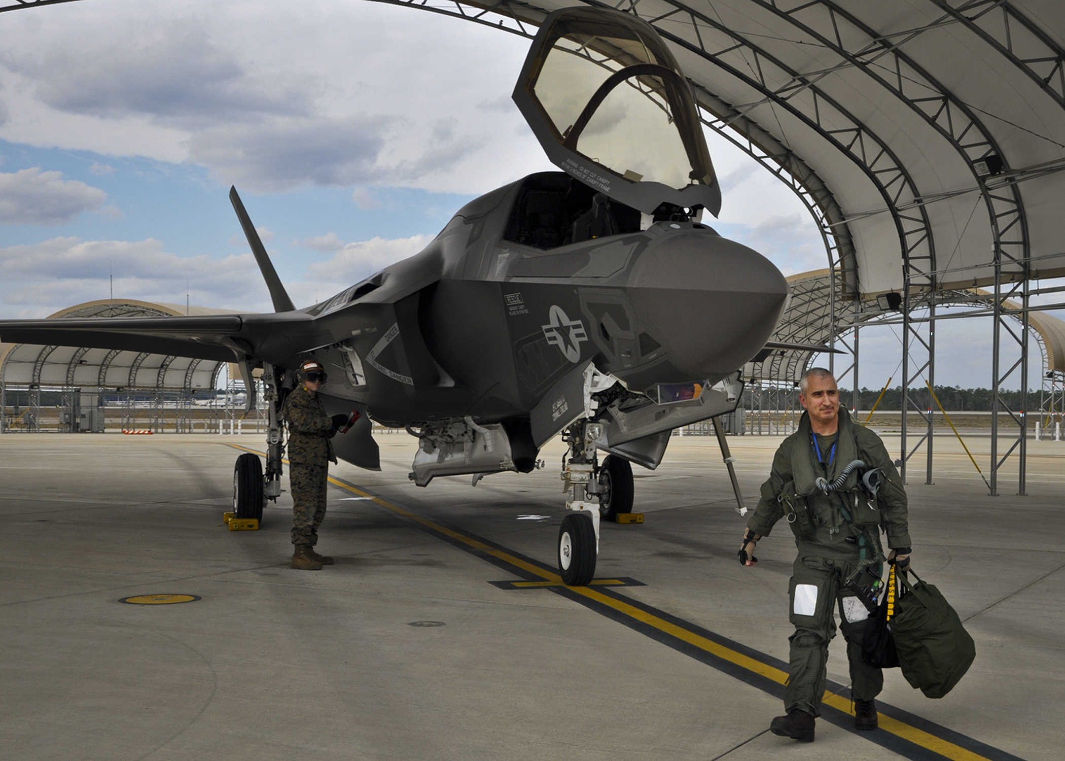 Original caption: Marine Col. Arthur Tomassetti, the 33rd Fighter Wing vice commander, walks away from his F-35B Lightning II after a sortie March 1. F-35 A and B operations began again March 1 at Eglin Air Force Base, Fla., after a two-week cautionary suspension grounded the aircraft. An engine blade crack discovered at Edwards Air Force Base, Calif. Feb. 19 caused the recent suspension.(U.S. Air Force photo/Maj. Karen Roganov)